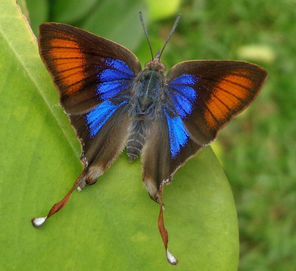 Myrina silenus, with wings open, at Port Harcourt, Nigeria